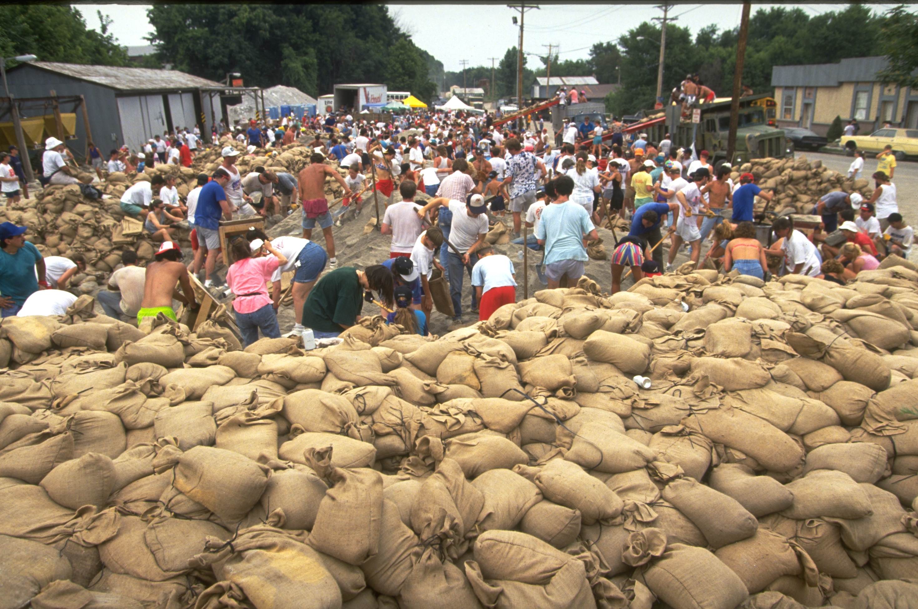 Midwest Floods, July 1993 -- Residents and volunteers work to fill sandbags in an effort to stop the flood from causing further damage. A total of 534 counties in nine states were declared for federal disaster aid. As a result of the floods, 168,340 people registered for federal assistance. Photo by Andrea Booher/FEMA Photo